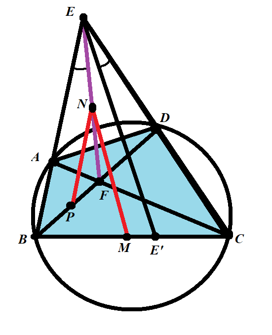 Finding angular equality by drawing additional parallel lines to the lines of the complete quadrilateral which connect to the Newton-Gauss Line.